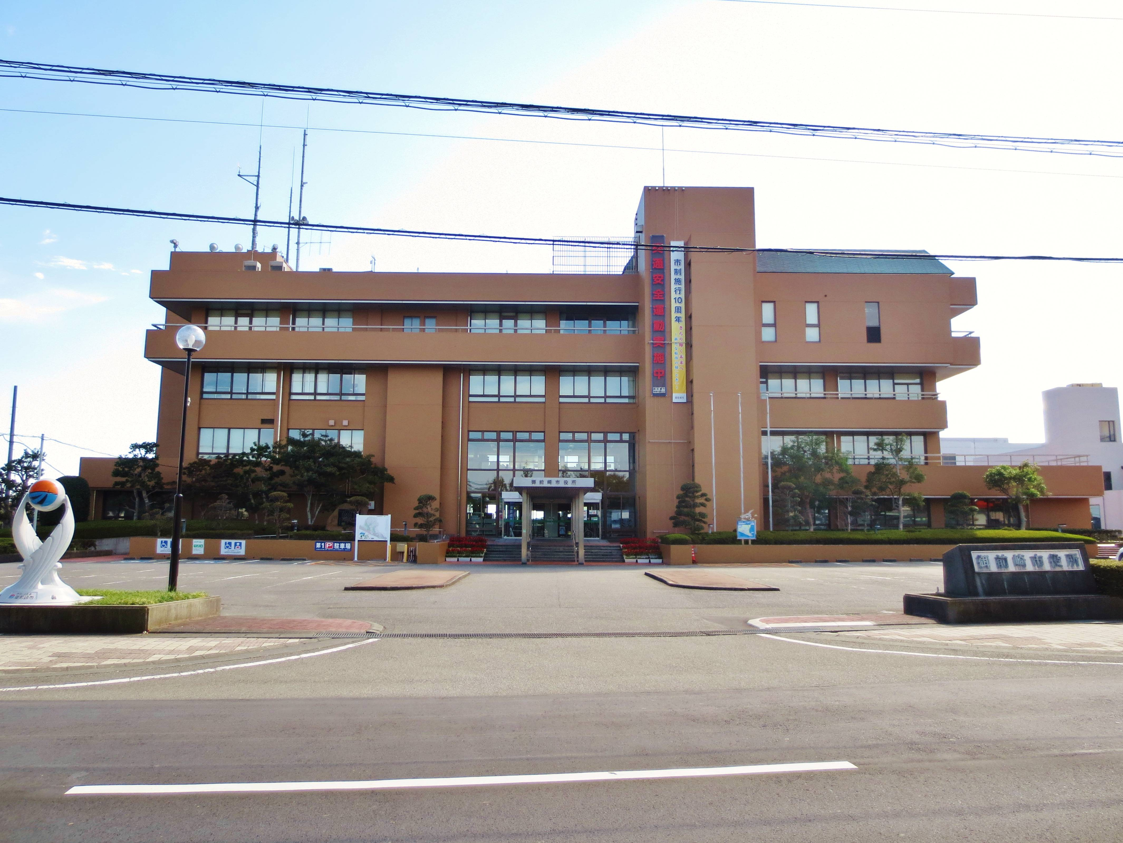 Omaezaki city office.